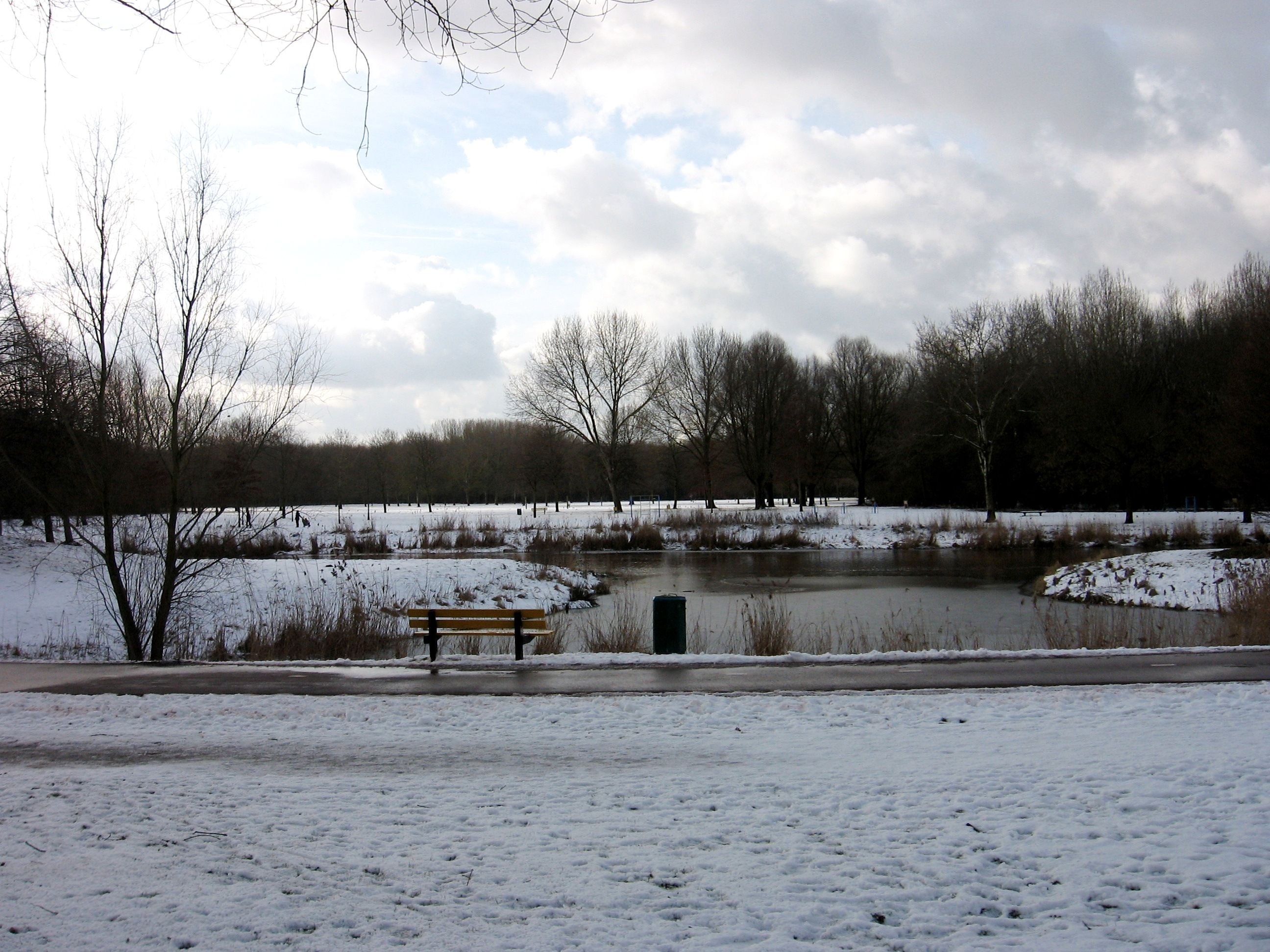 Capelle aan den IJssel - Schollebos